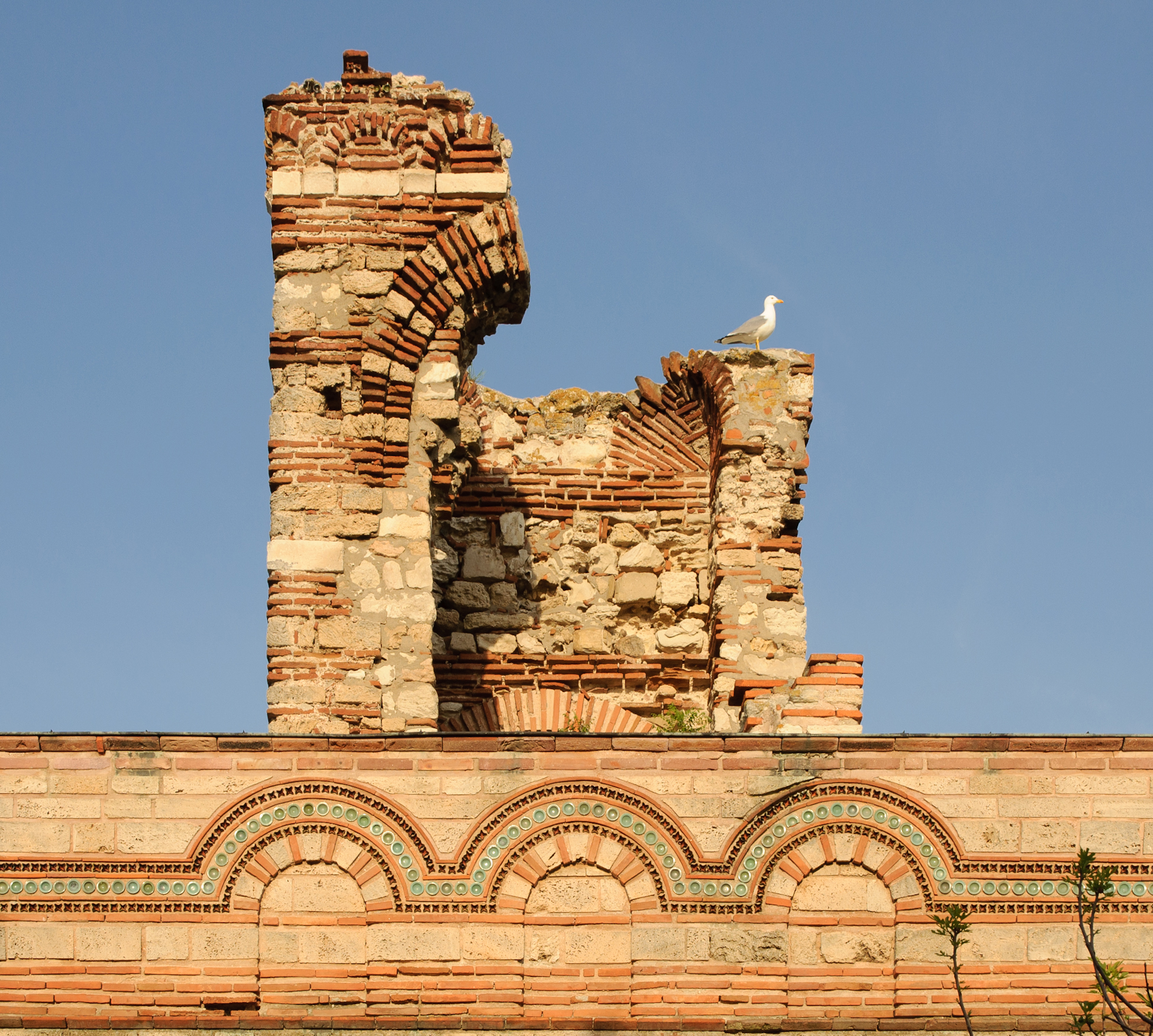 Fragment of the west facade of the medieval Christ Pantocrator church in Nesebar, Bulgaria. Built in the first half of 14th century.